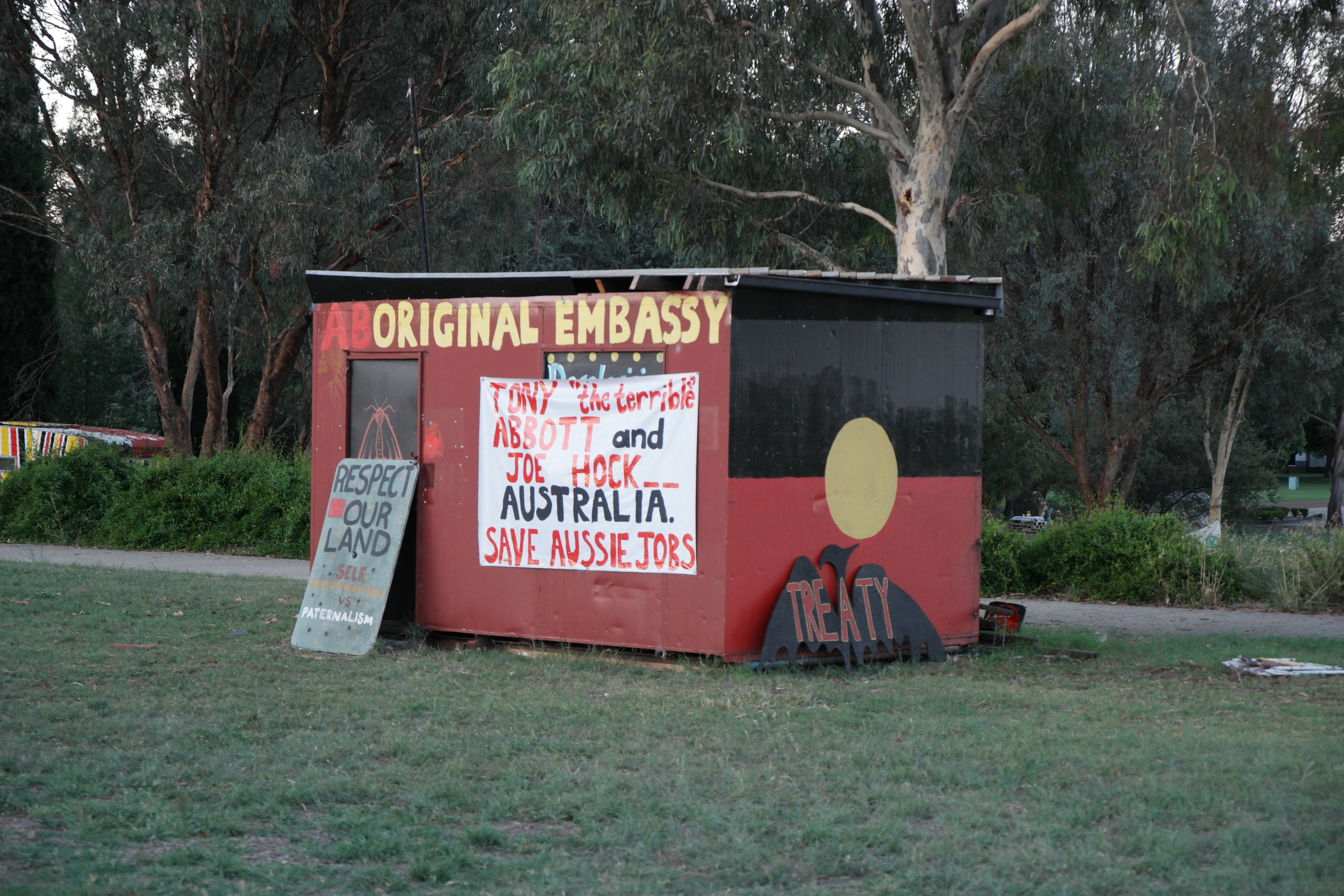 Aboriginal Tent Embassy, Canberra, Australia.